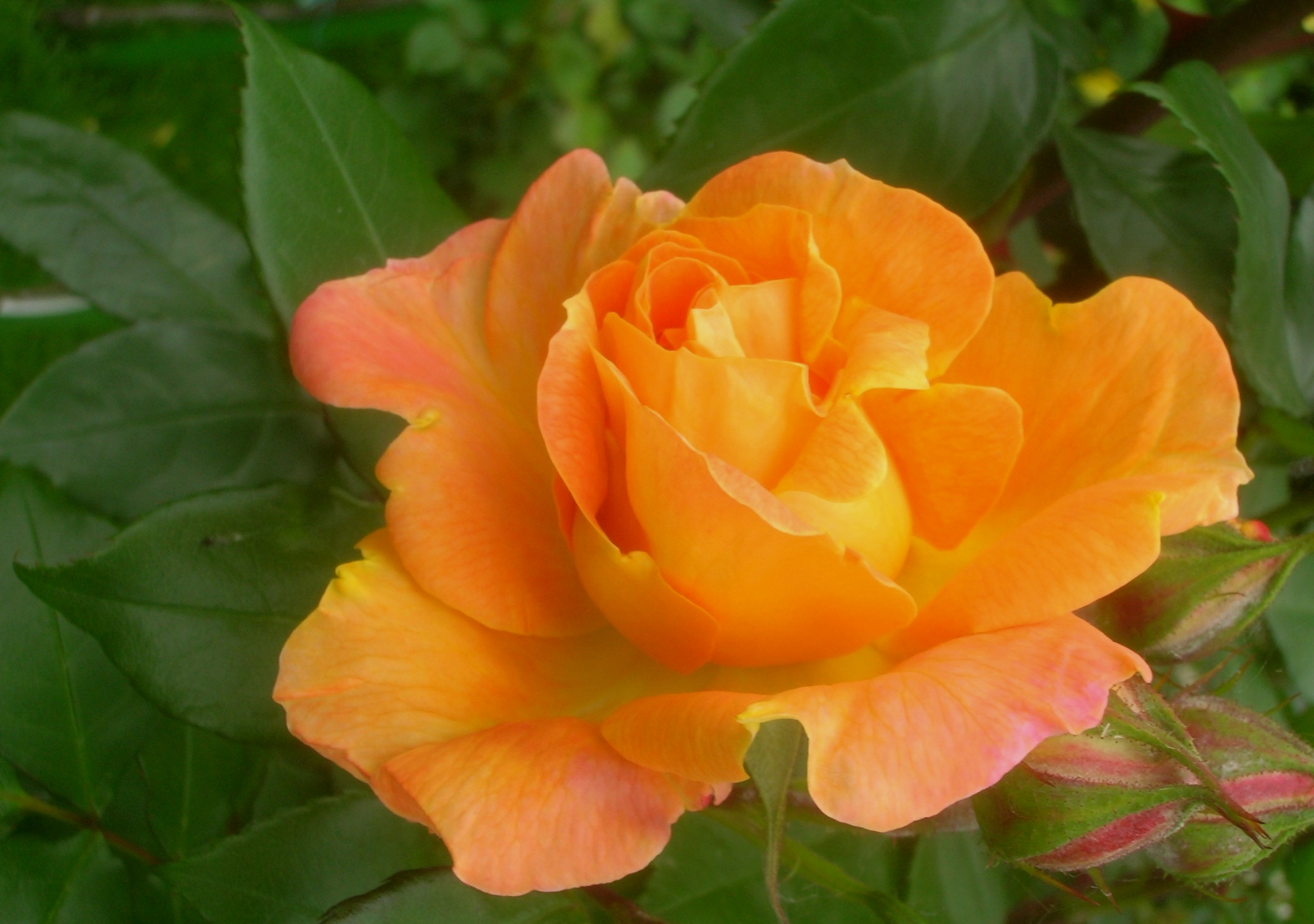 Rosa 'Rumba' in the Volksgarten, Vienna